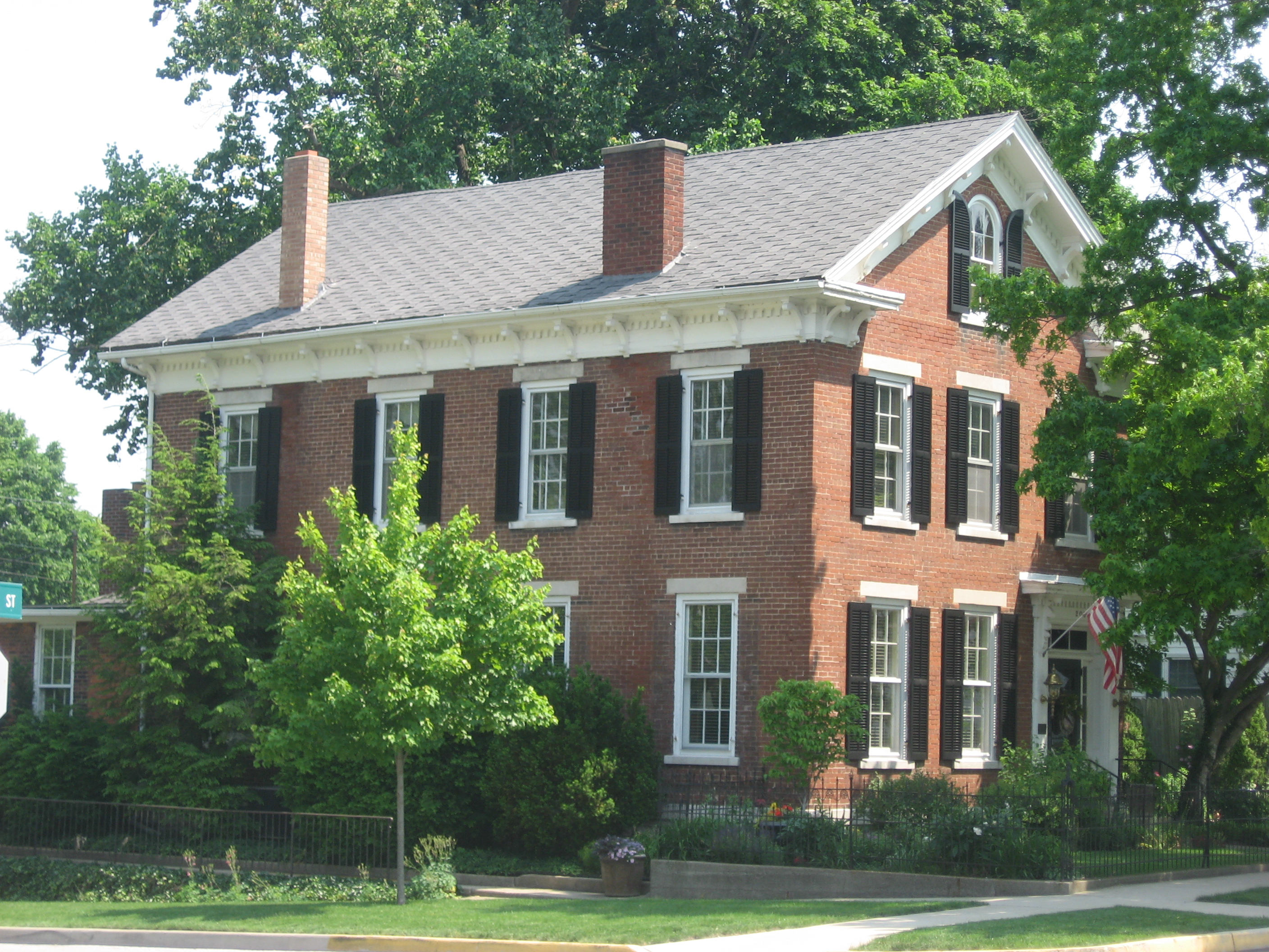 Front and western side of the Barnett-Seawright-Wilson House, located at 203 E. Monroe Street in Delphi, Indiana, United States. Built in 1857, it is listed on the National Register of Historic Places.